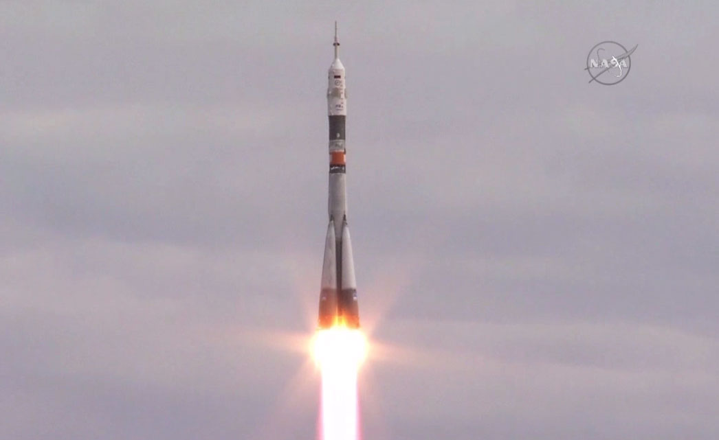 The Soyuz TMA-18M launches on time at 12:37 a.m. EDT Wednesday (10:37 a.m. in Baikonur).